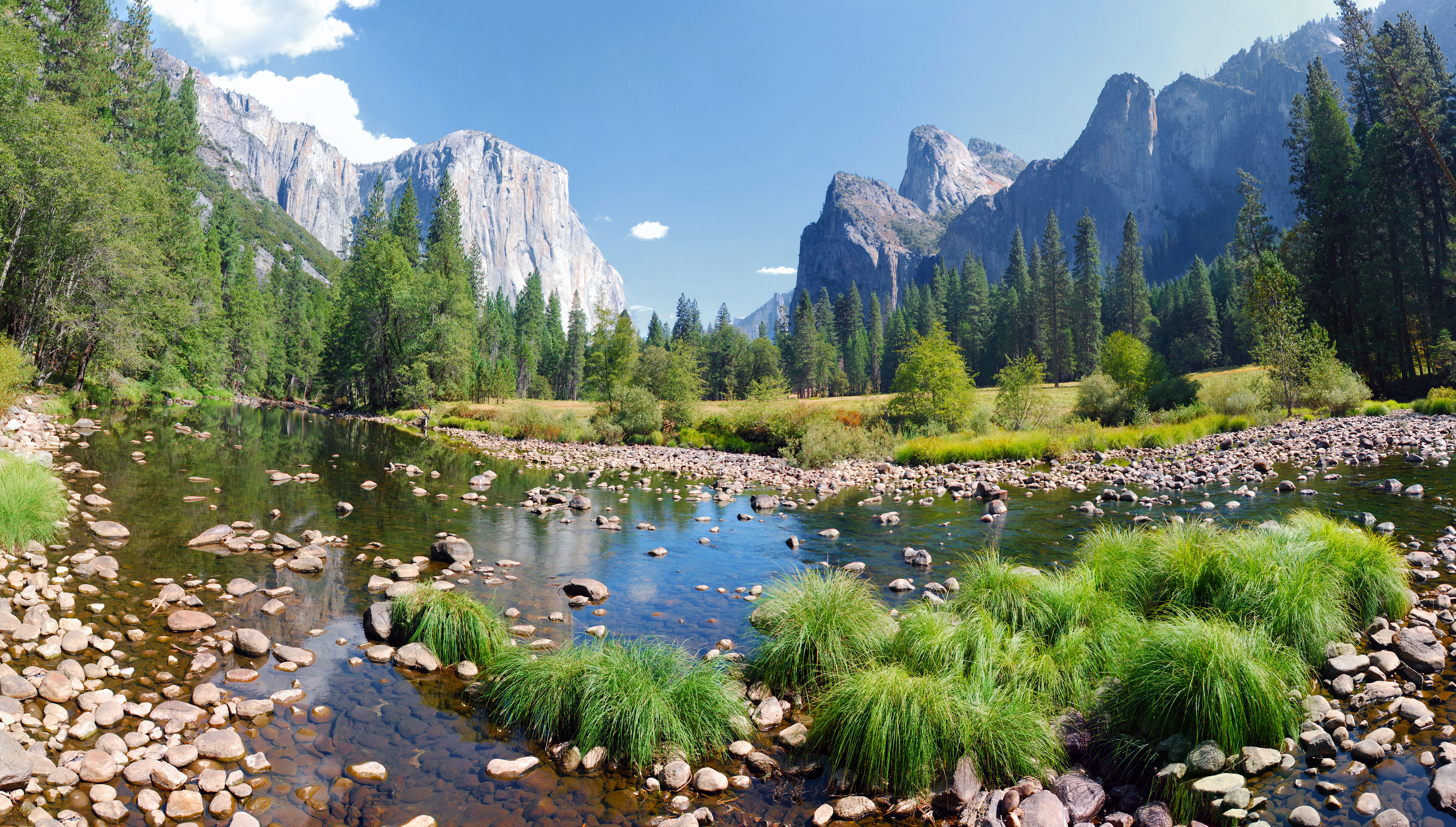 The classic shot of Yosemite Valley from the Merced River.